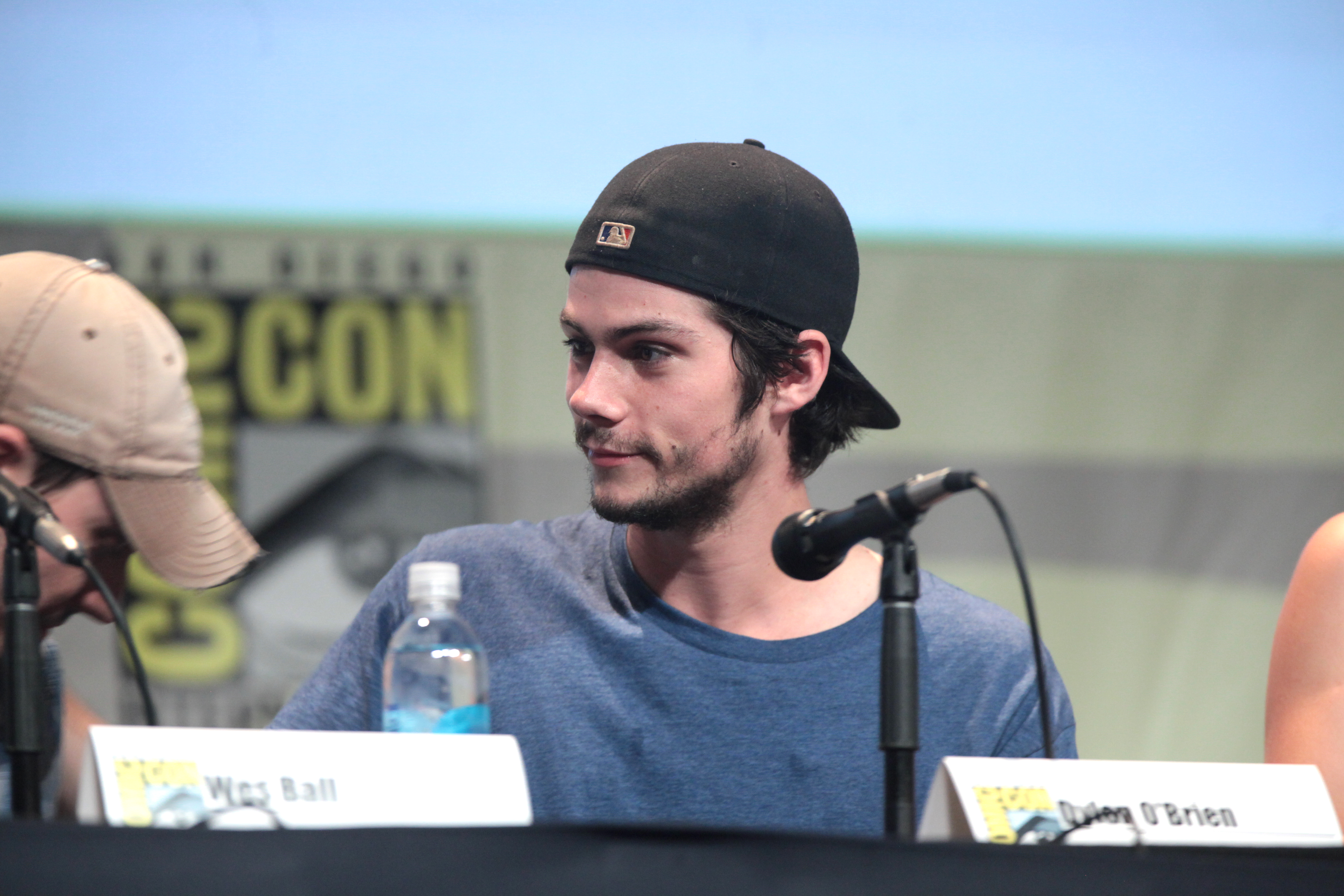 Dylan O'Brien speaking at the 2015 San Diego Comic Con International, for "Maze Runner: The Scorch Trials", at the San Diego Convention Center in San Diego, California.